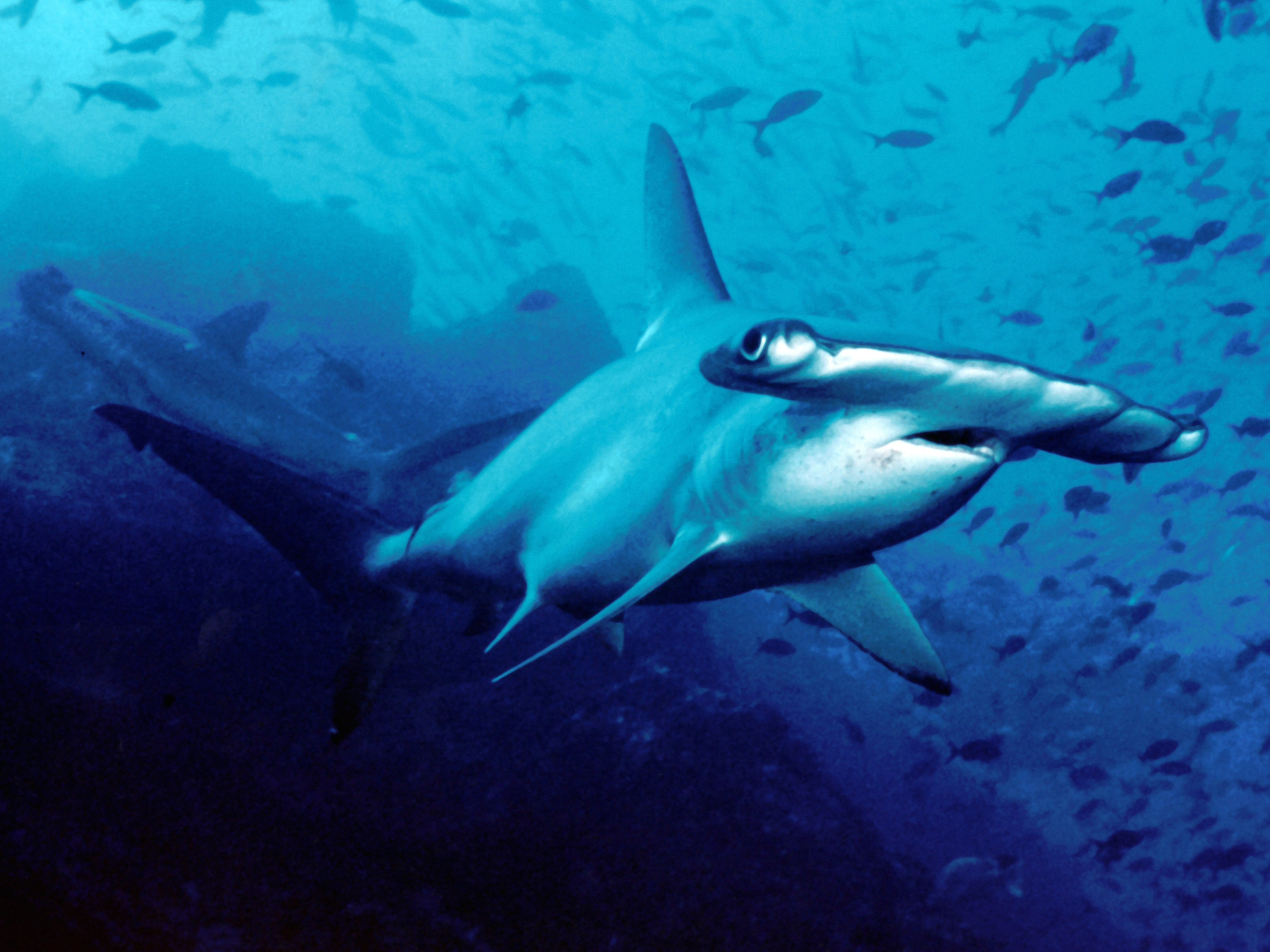 Scalloped hammerheads (Sphyrna lewini) off Cocos Island, Costa Rica.